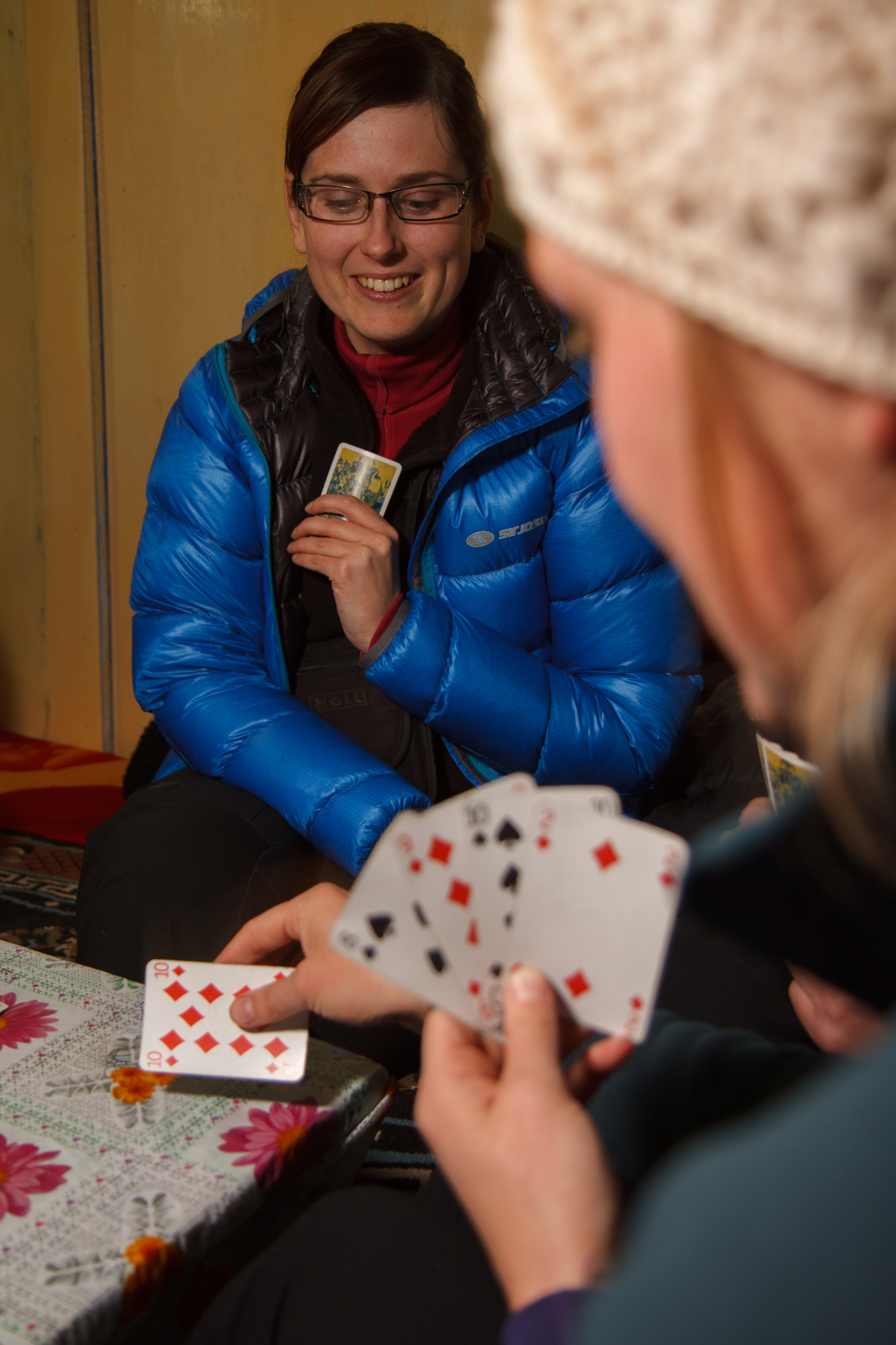 We played a game called „president“ all the evening. It seams qute popular in the region.